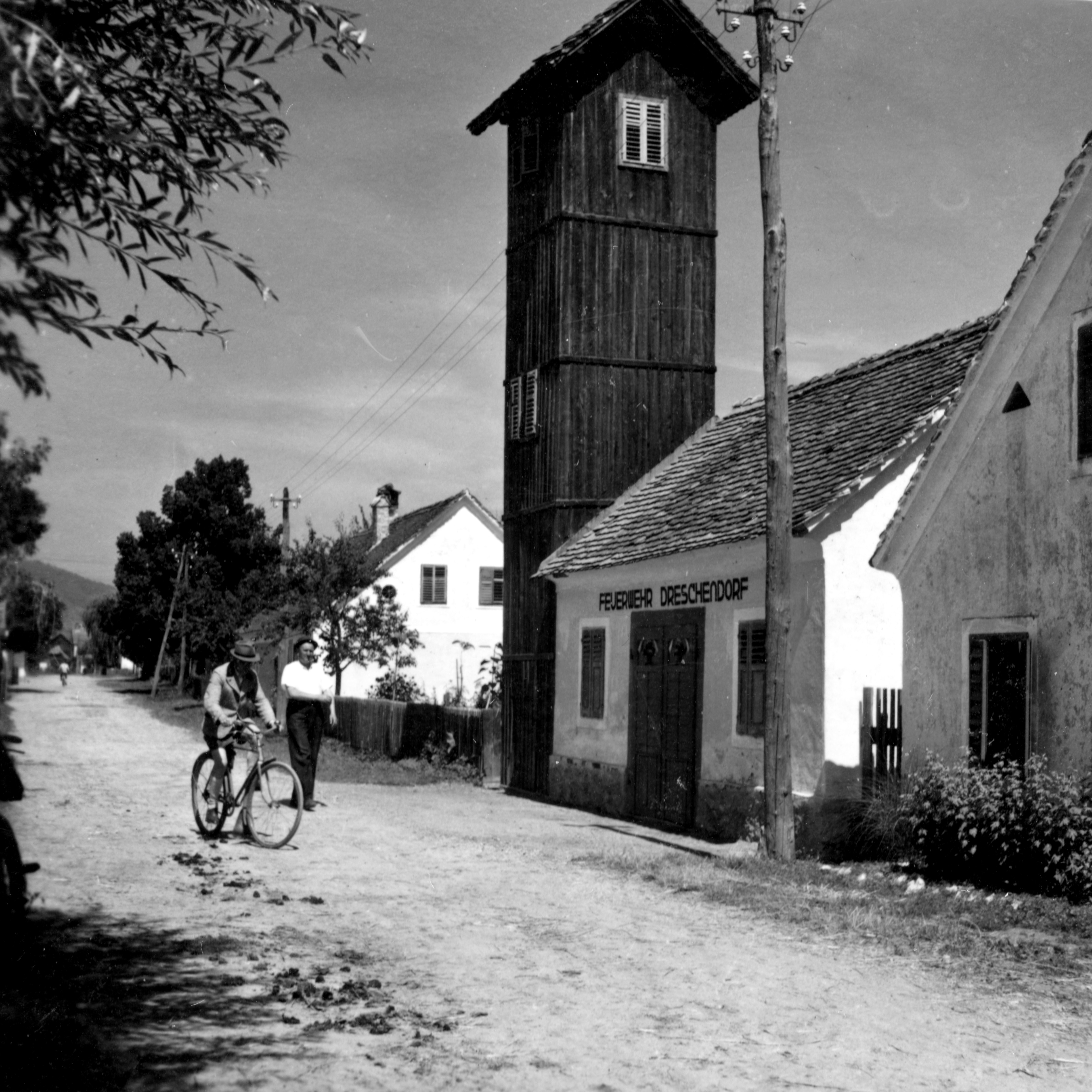 Fire station in Drešinja vas during World War II. The sign is written in German - "Feuerwehr Dreschendorf" because this part of Slovenia was occupied by Nazi Germany.